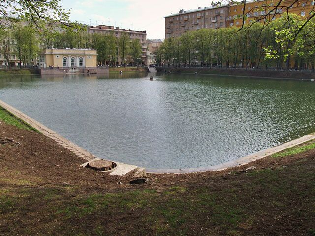 Patriarshiye Ponds